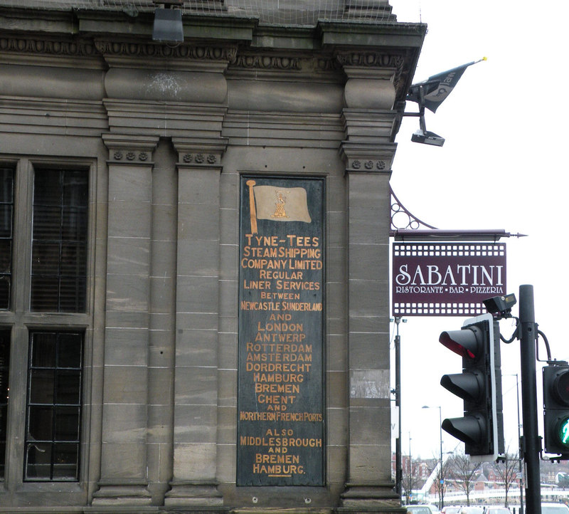 Tyne-Tees Steam Shipping Company sign, Data from Geograph: Description: King Street, on the side of what is now Sabatini's restaurant ICBM: 54.968722292393, -1.6055616235436 Location: (about 1 km from) near to Gateshead, Great Britain.